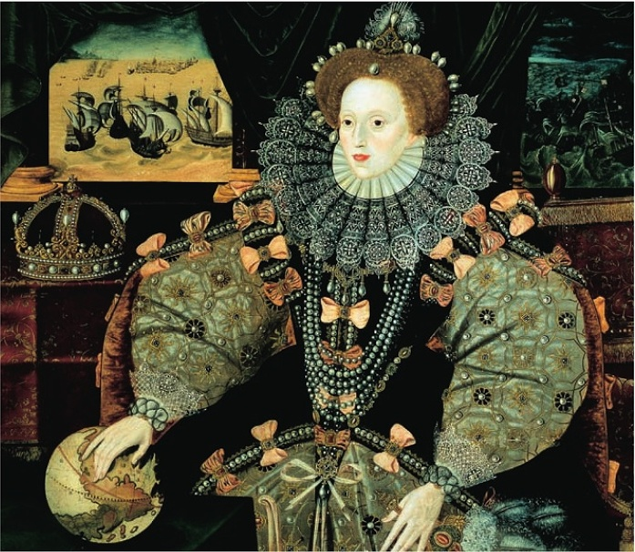 Another Armada Portrait of Queen Elisabeth I. of England